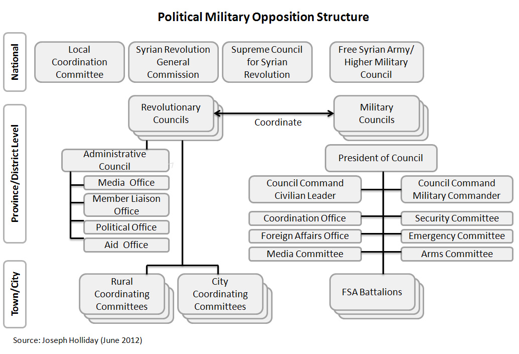 The political military structure of the opposition during the Syrian uprising, June 2012.